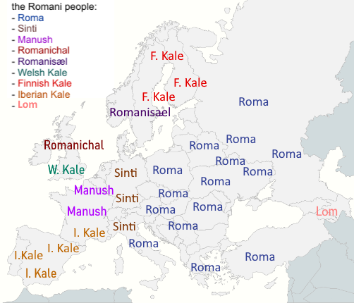 The branches of the Romani people and their historical "homelands" in Europe.